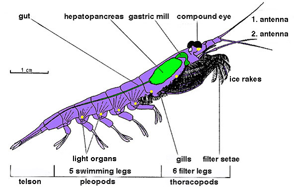 Antarctic krill anatomy graph by Uwe Kils gfdl modified and translated from Kils & Klages 1979